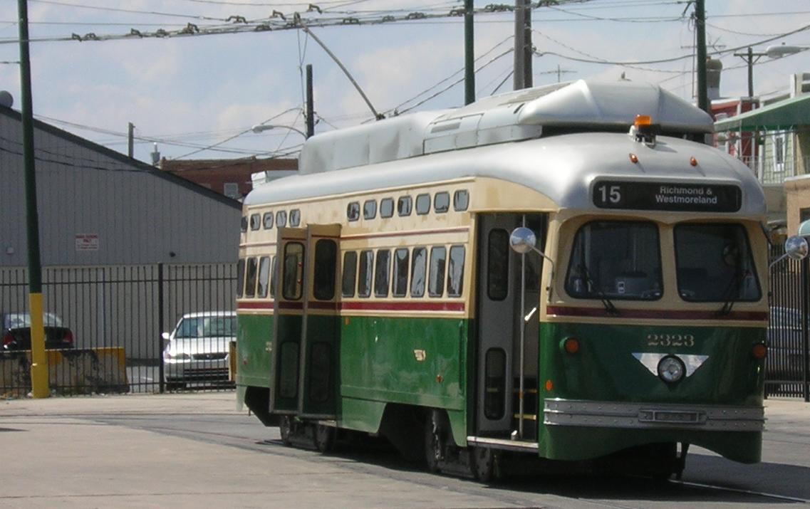 Cropped Picture of SEPTA PCC II Trolley at Westmoreland St. Loop